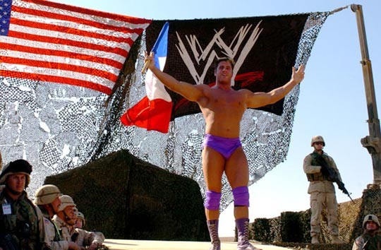 WWE wrestler Rene Dupree performs for troops in Iraq.